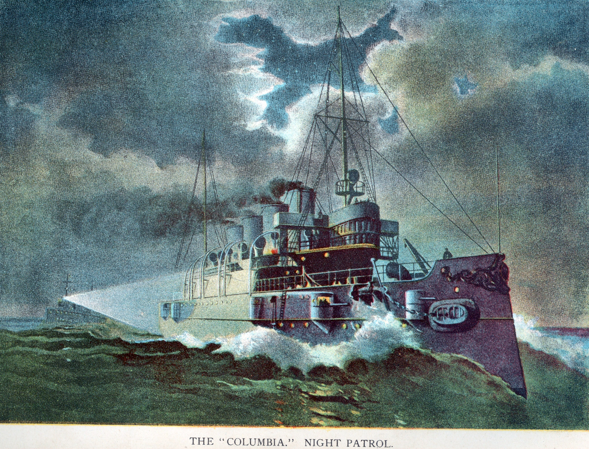 USS Columbia 1898